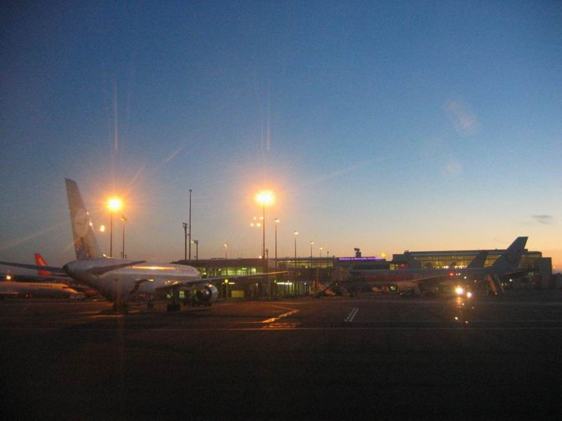 Newcastle International Airport.